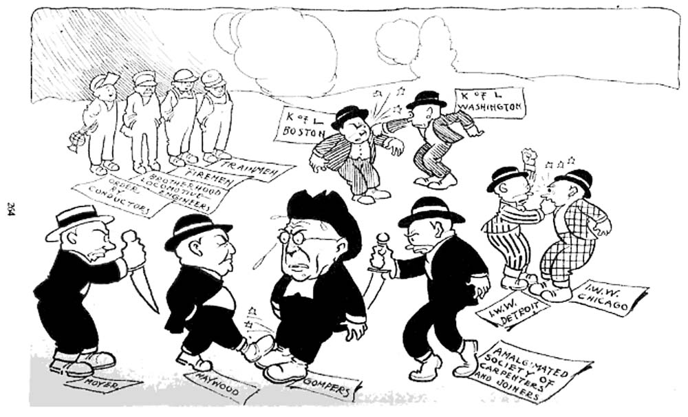 Anti-union cartoon depicting railroad worker craft unions looking on as labor leaders fight each other.